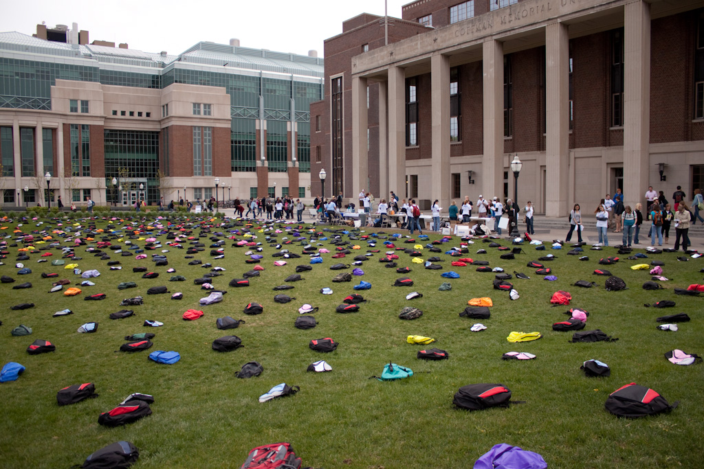 TwinCities24